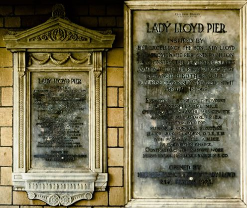 Lady Lloyd Pier This is a photo of a monument in Pakistan identified as the SD-P-72